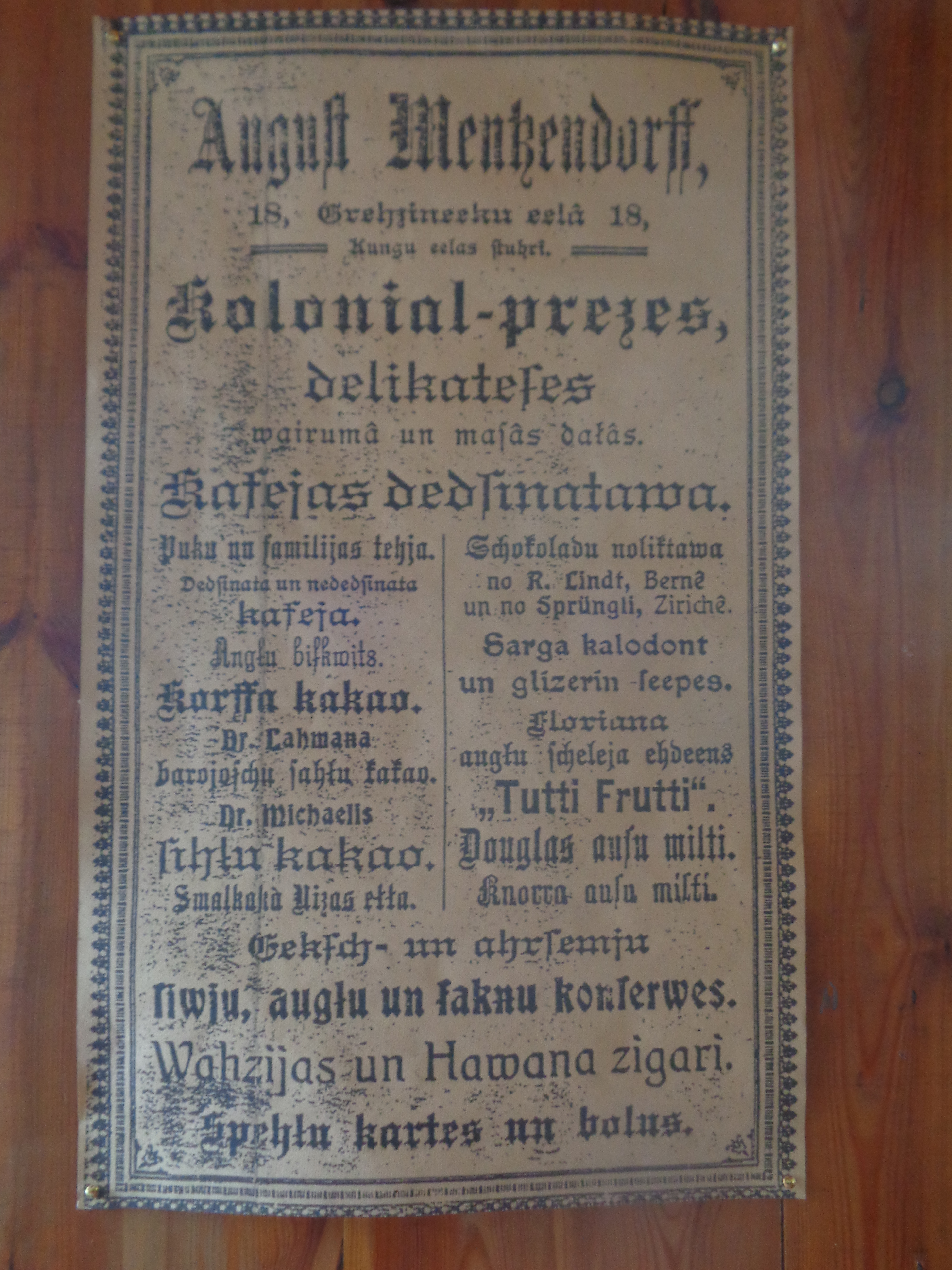 Newspaper advertisement (presumably late 19th or early 20th c.) for the colonial goods business of the Baltic German grocer August Mentzendorff (1821-1901), showing old Latvian orthography and script. Photo of an exhibit in the Mentzendorff House, a historical museum in Riga, Latvia.